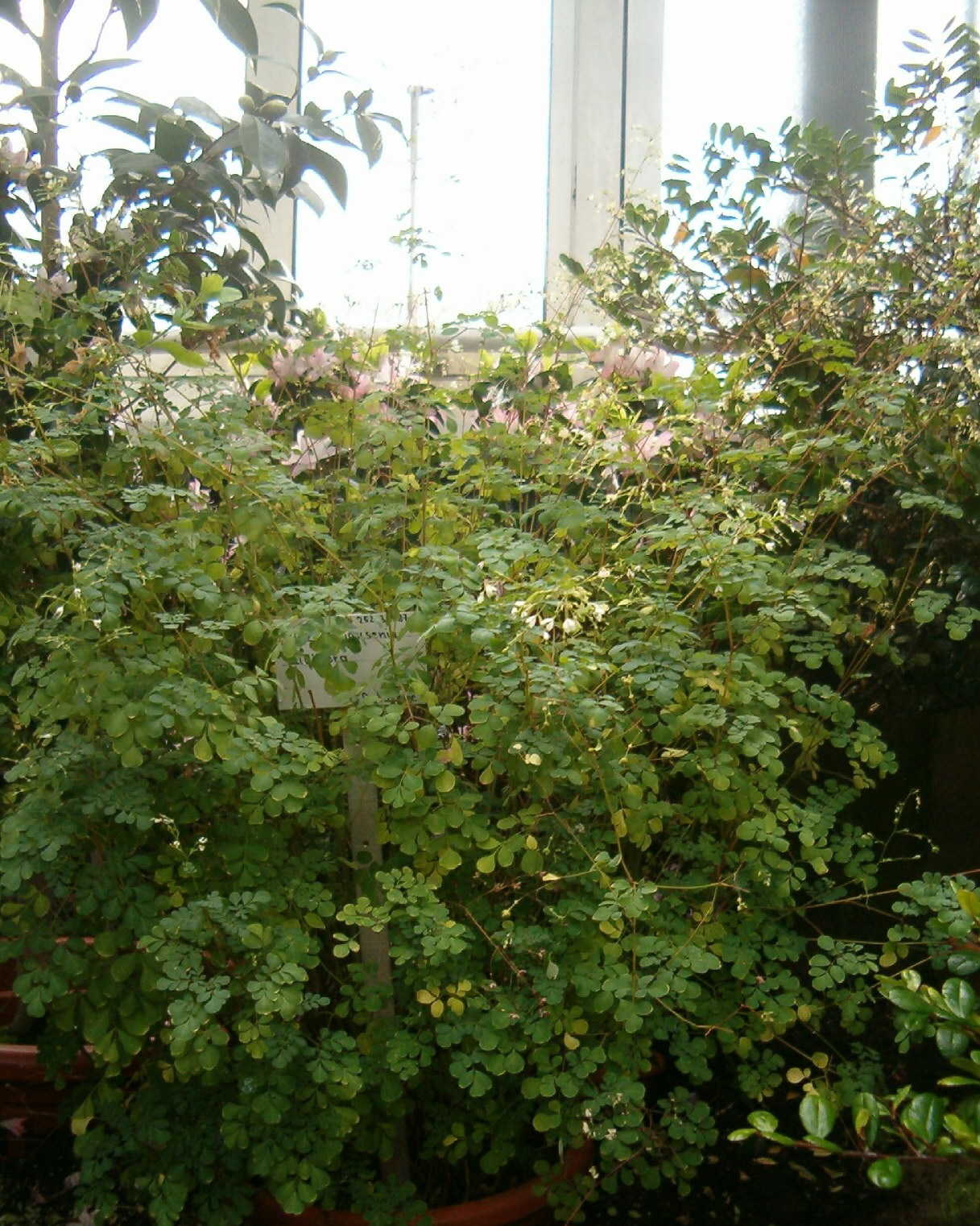 Location: Boenninghausenia albiflora, Botanical Gardens Berlin Dahlem